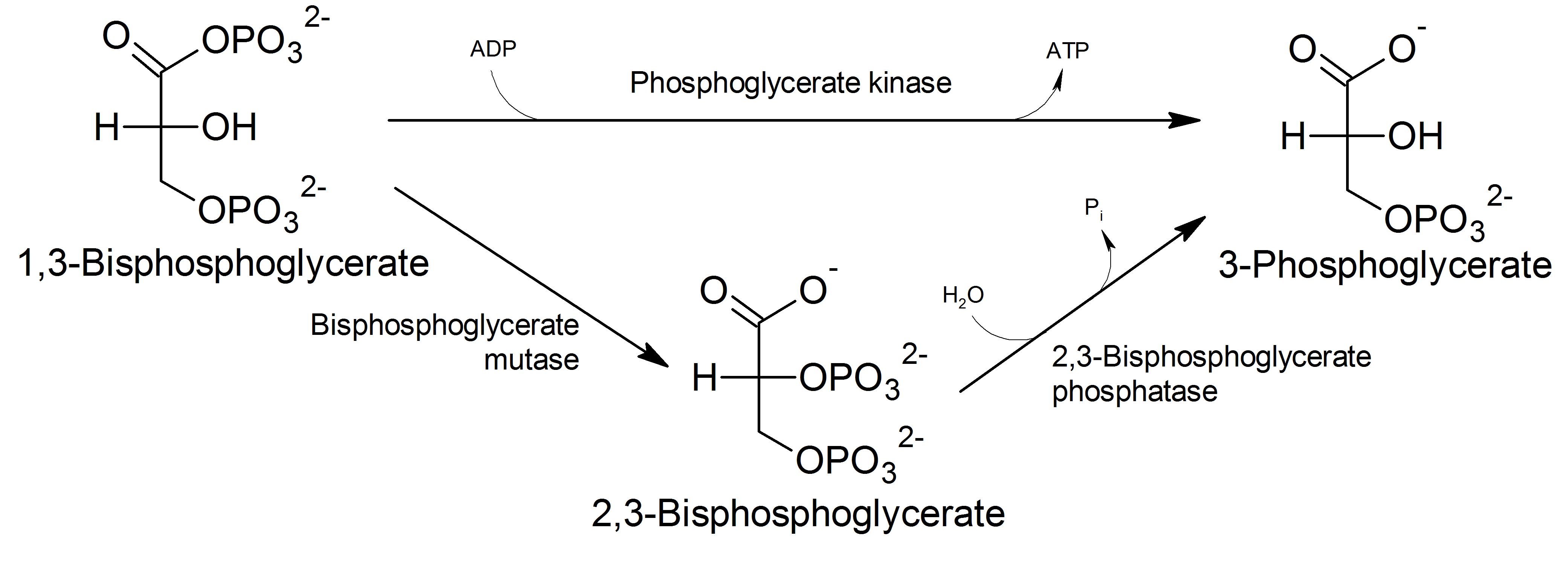 Pathway of generation of 2,3-bisphosphoglycerate